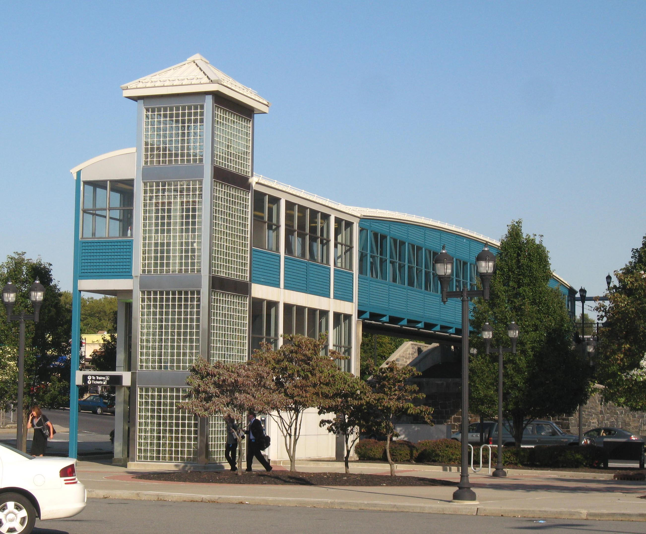 Looking east at West Side Avenue (HBLR station) on a sunny early afternoon.